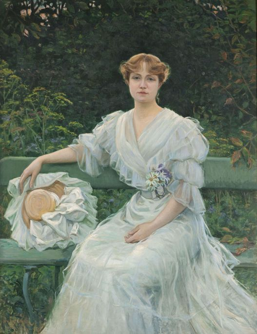 Jules Cayron's. "Portrait de Marguerite Durand (1864-1936), newspaper founder, feminist". Huile sur toile. 1897. Paris, at Bibliothèque Marguerite Durand. Dimensions: 171 x 140 cm